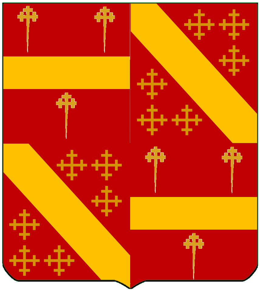 Shield of arms of The Lord Harlech